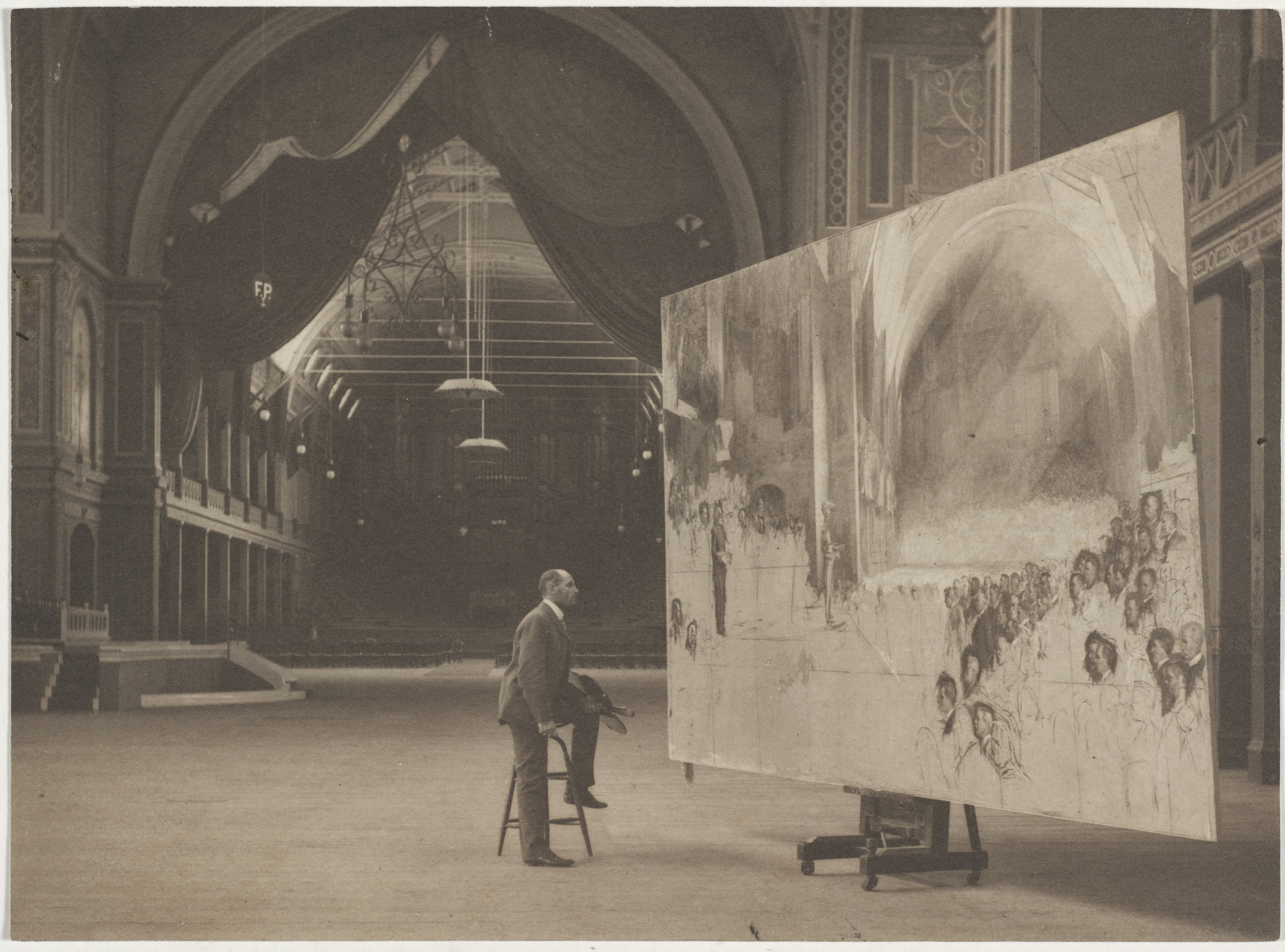 Tom Roberts working on The Big Picture, his epic painting of the opening of the first parliament of Australia, at the Royal Exhibition Building in Melbourne.